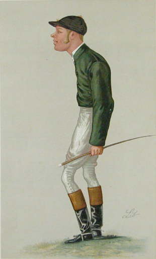 Caricature of George Alexander Baird (1861-1893). Caption read "Mr Abington". Brief biography